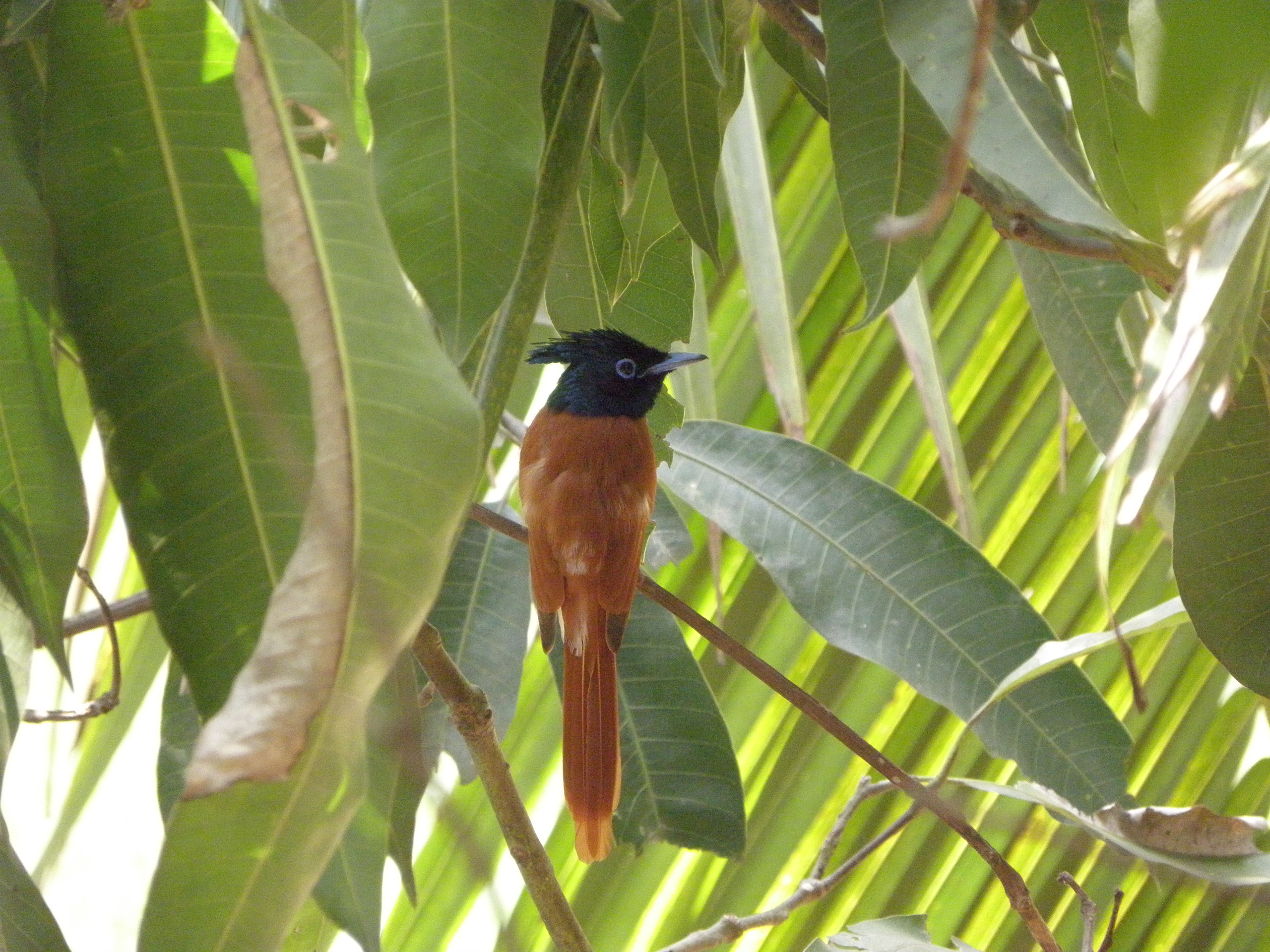 Asian Paradise-flycatcher at Thrissur, Kerala